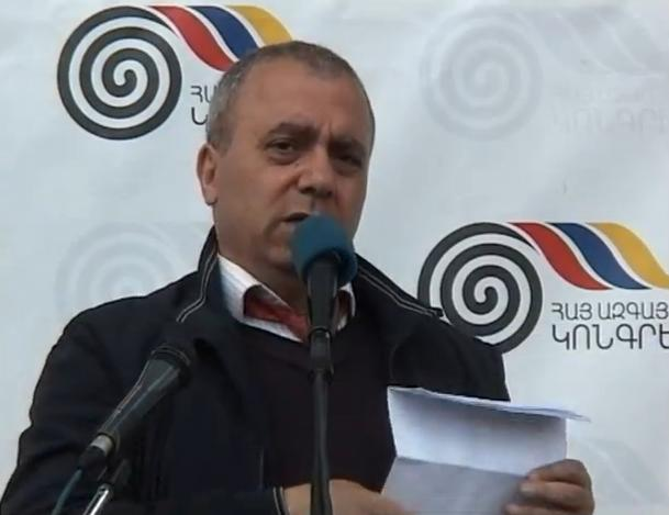 Armenia former Prime Minister Hrant Bagratyan in 2012, during the parliamentary election campaign